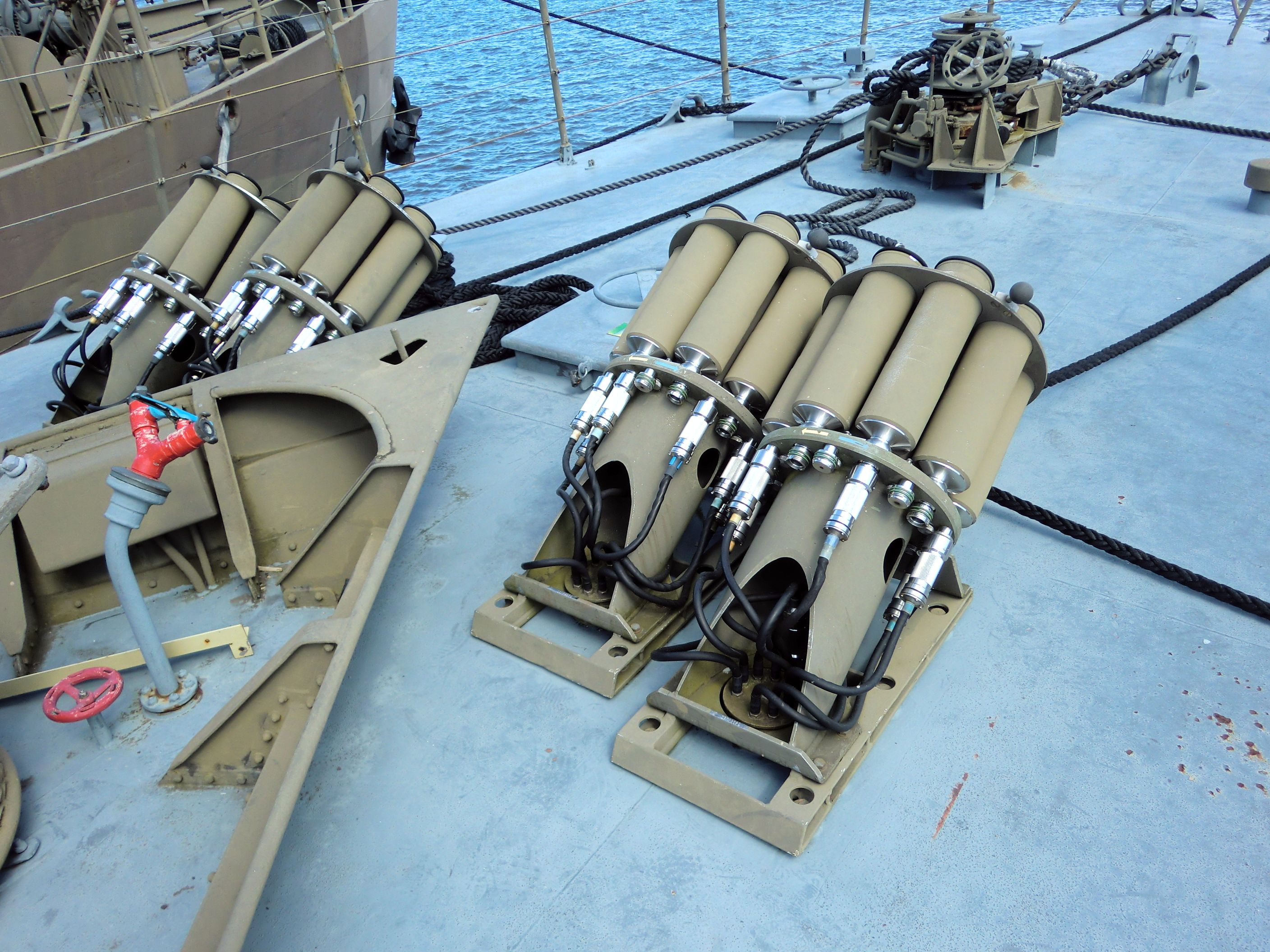 Anti-submarine mortarsystem Elma LLS-920 on the Swedish patrolboat HMS Hugin. Rearview with some mortars unattached.